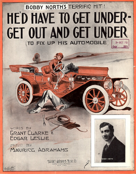 Sheet music cover for the 1908 hit He'd Have to Get Under – Get Out and Get Under (to Fix Up His Automobile)" Abrahams, Maurice (composer), Clarke, Grant (lyricist), Leslie, Edgar (lyricist)